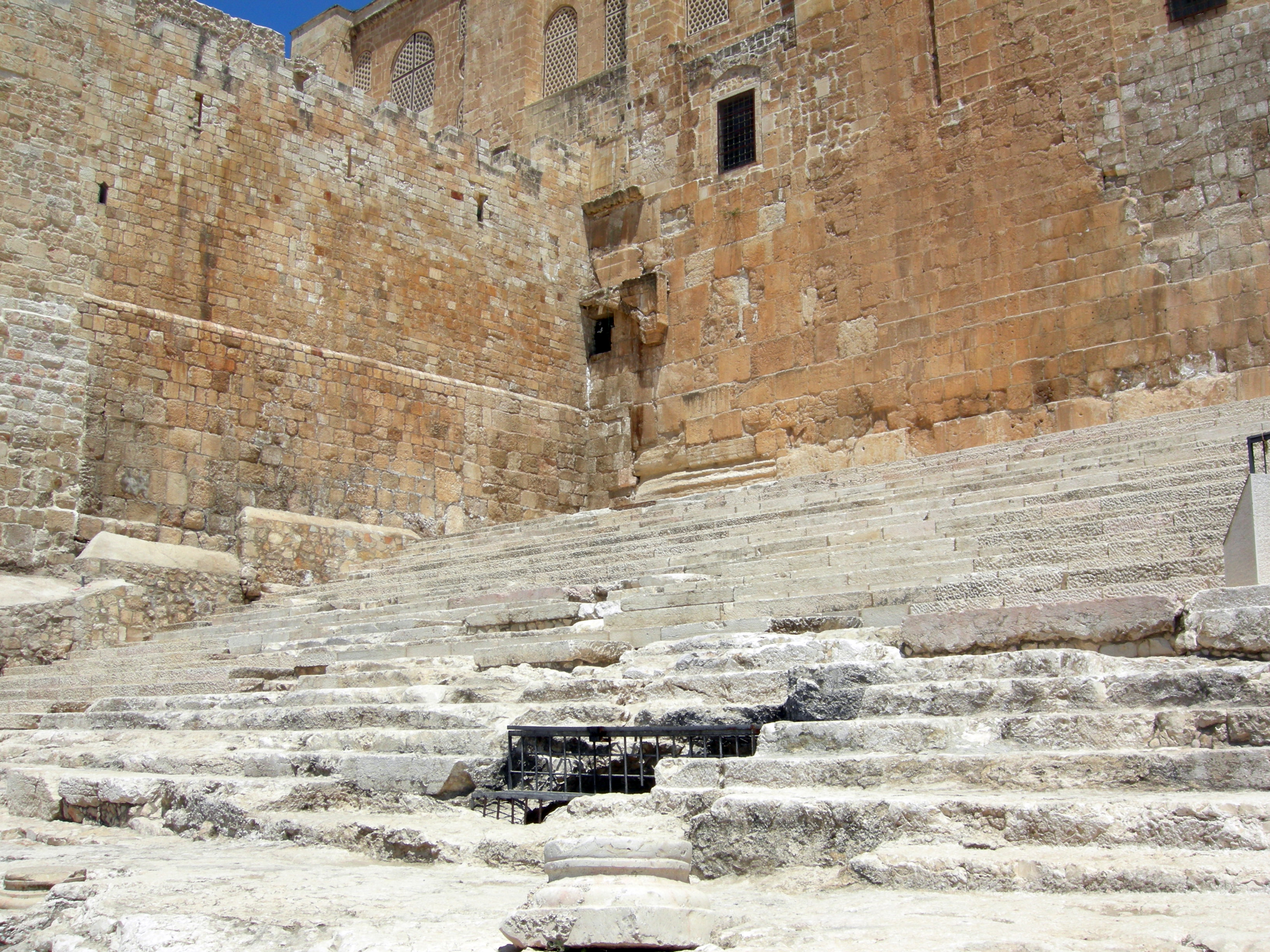 Southern steps of the Temple Mount, Jerusalem.